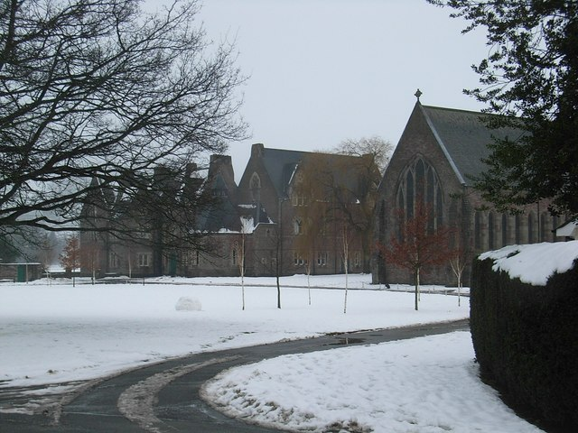 Christ College, Brecon Looking from the entrance from Bridge St..